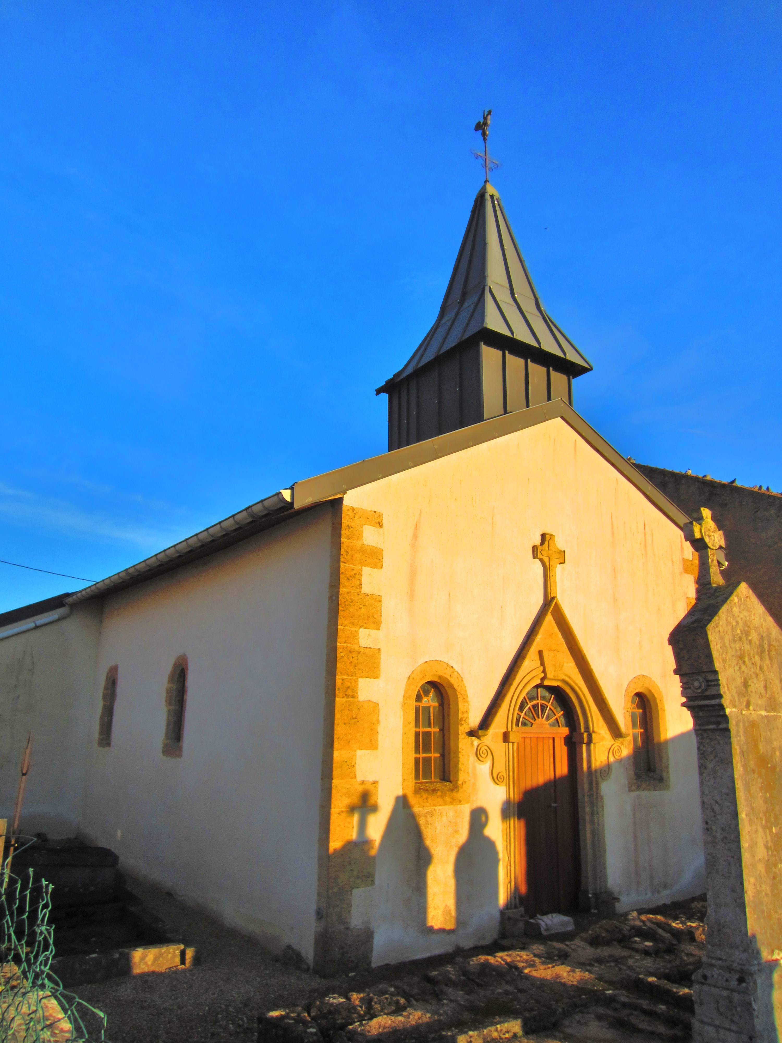 Bertrameix church